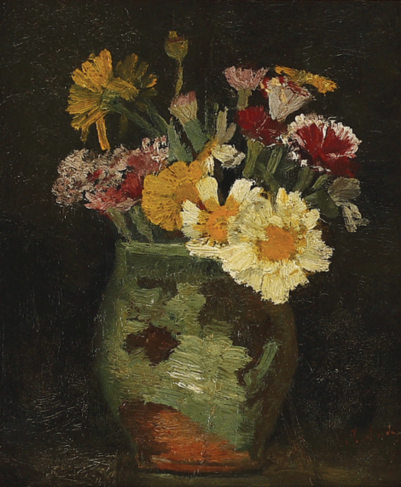 25 x 20 cm painted by Andreescu former collection of Alexandru Bellu oil on canvas